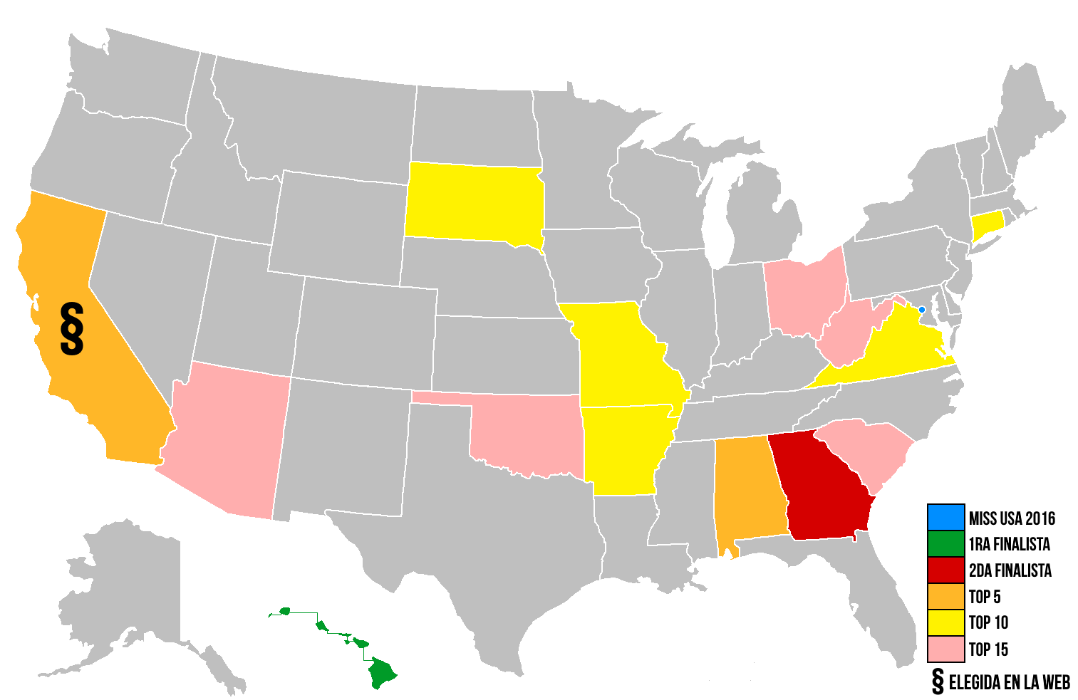 Miss USA 2016 Results (Spanish)